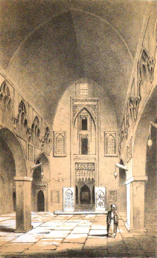 East Side of a Church in Mosul about 1850